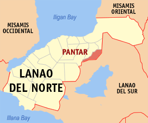 Map of the Lanao del Norte showing the location of Pantar